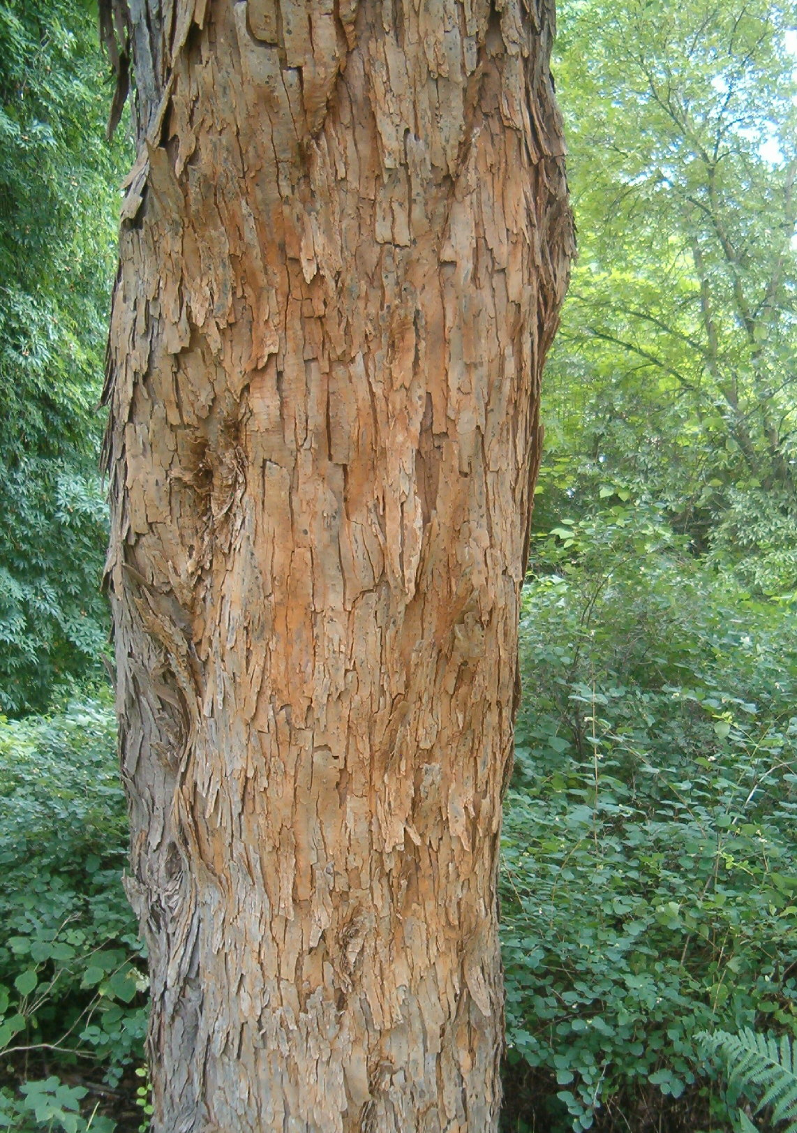 At Botanical Gardens Berlin-Dahlem Species Ostrya virginiana'